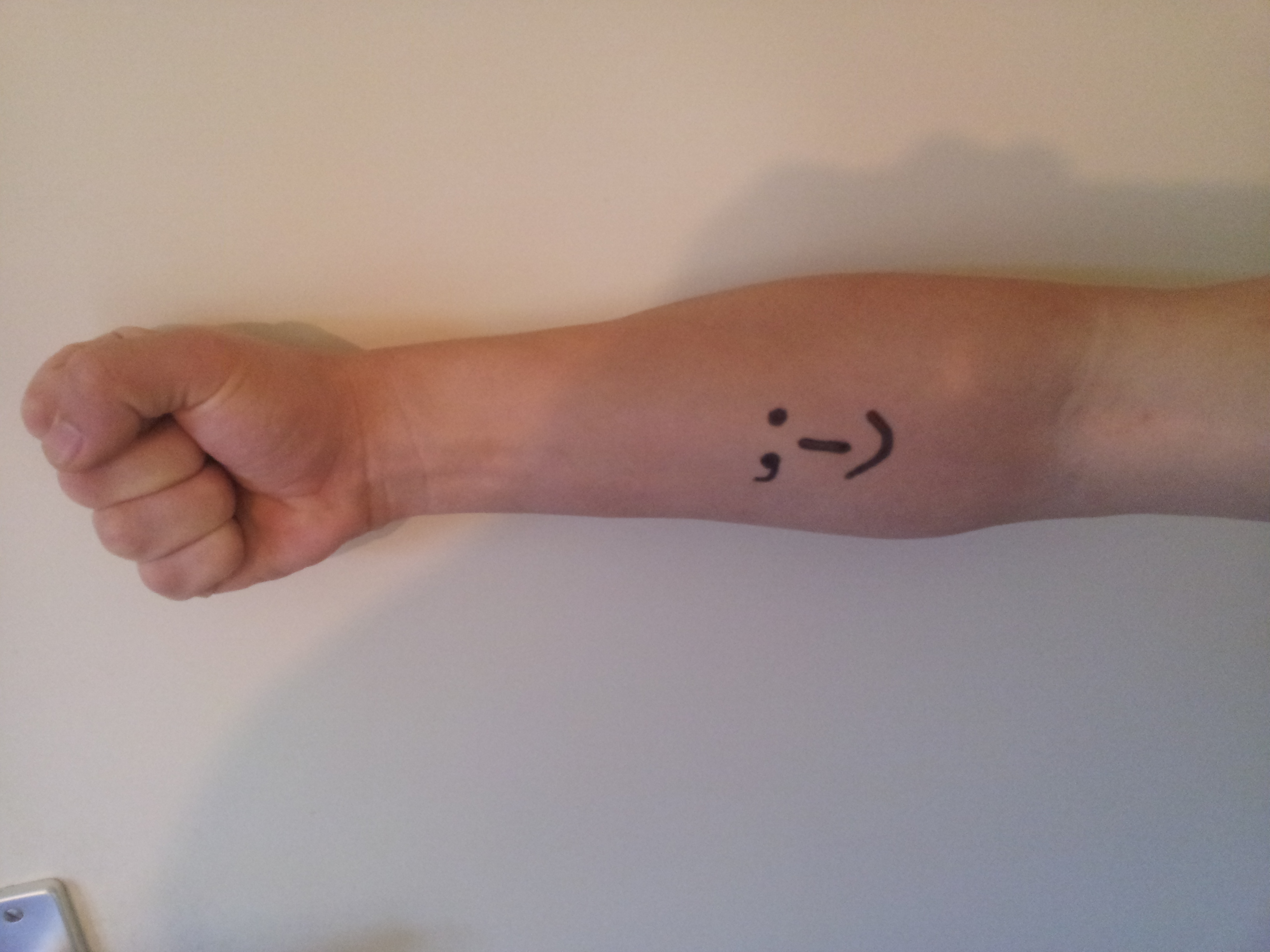 Picture of my own arm, three weeks after getting tattoo.